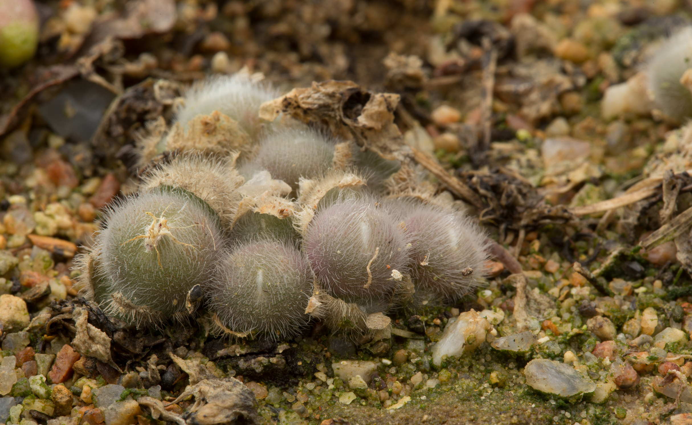 Small Conophytum from the Steinkopf district, South Africa. This plant is a cultivated specimen.